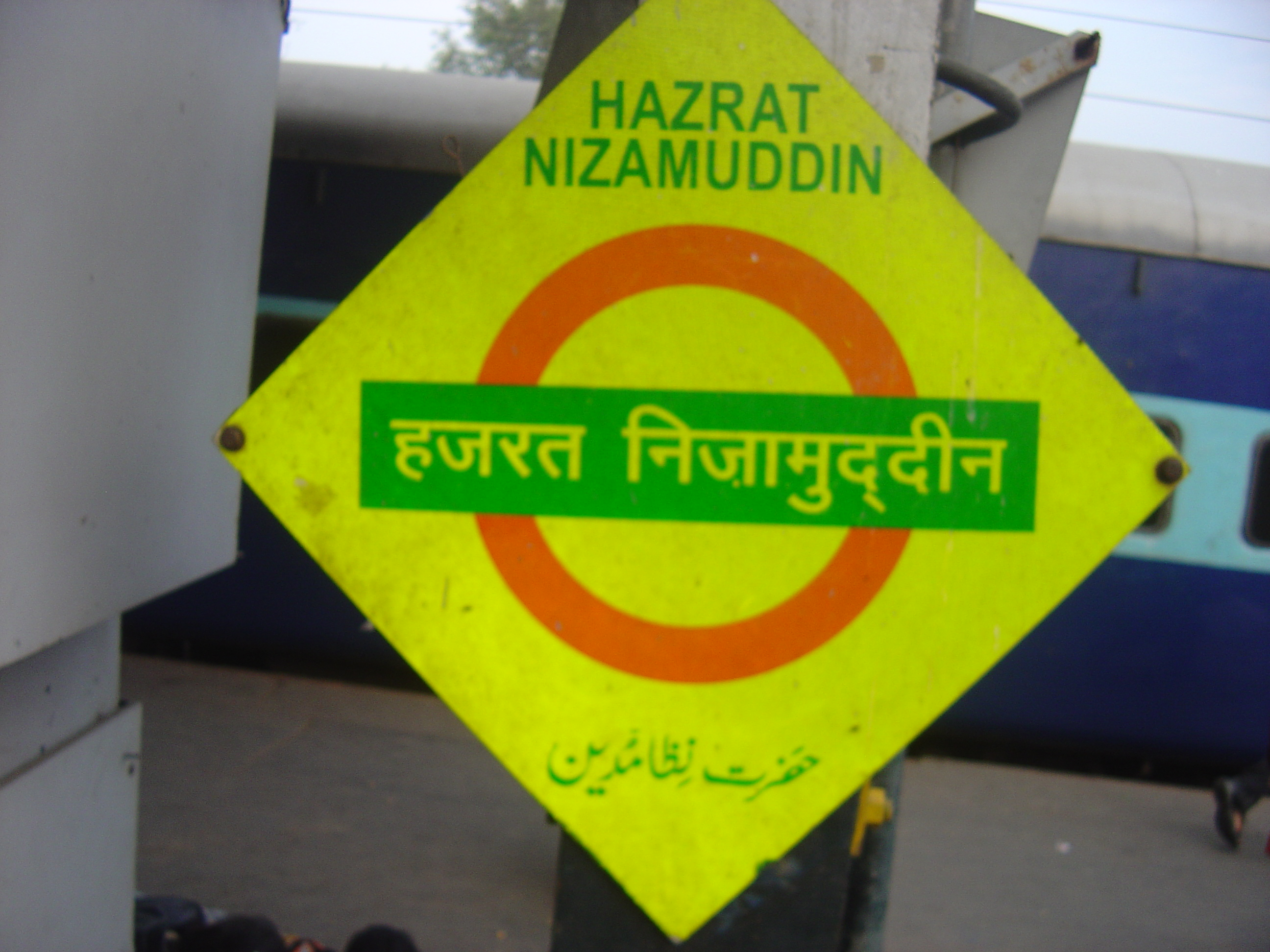 Hazrat Nizamuddin platformboard